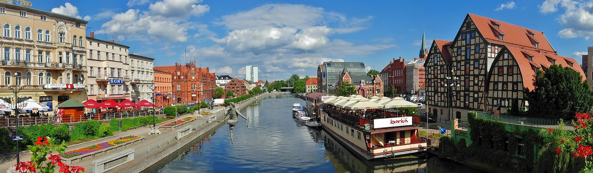 View of Brda from the bridge Staromiejski (Old Town Bridge) in Bydgoszcz